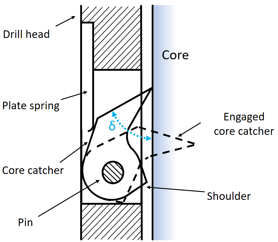 Diagram showing how core dogs catch and break an ice core in ice drilling. Redrawn from Talalay, Pavel G. (April 2012). Drill heads of the deep ice electromechanical drills (Report). Jilin University, China: Polar Research Center, p. 29.